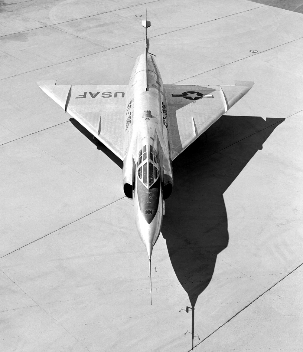 No.9 Convair YF-102 53-1785 photographed on a ramp.